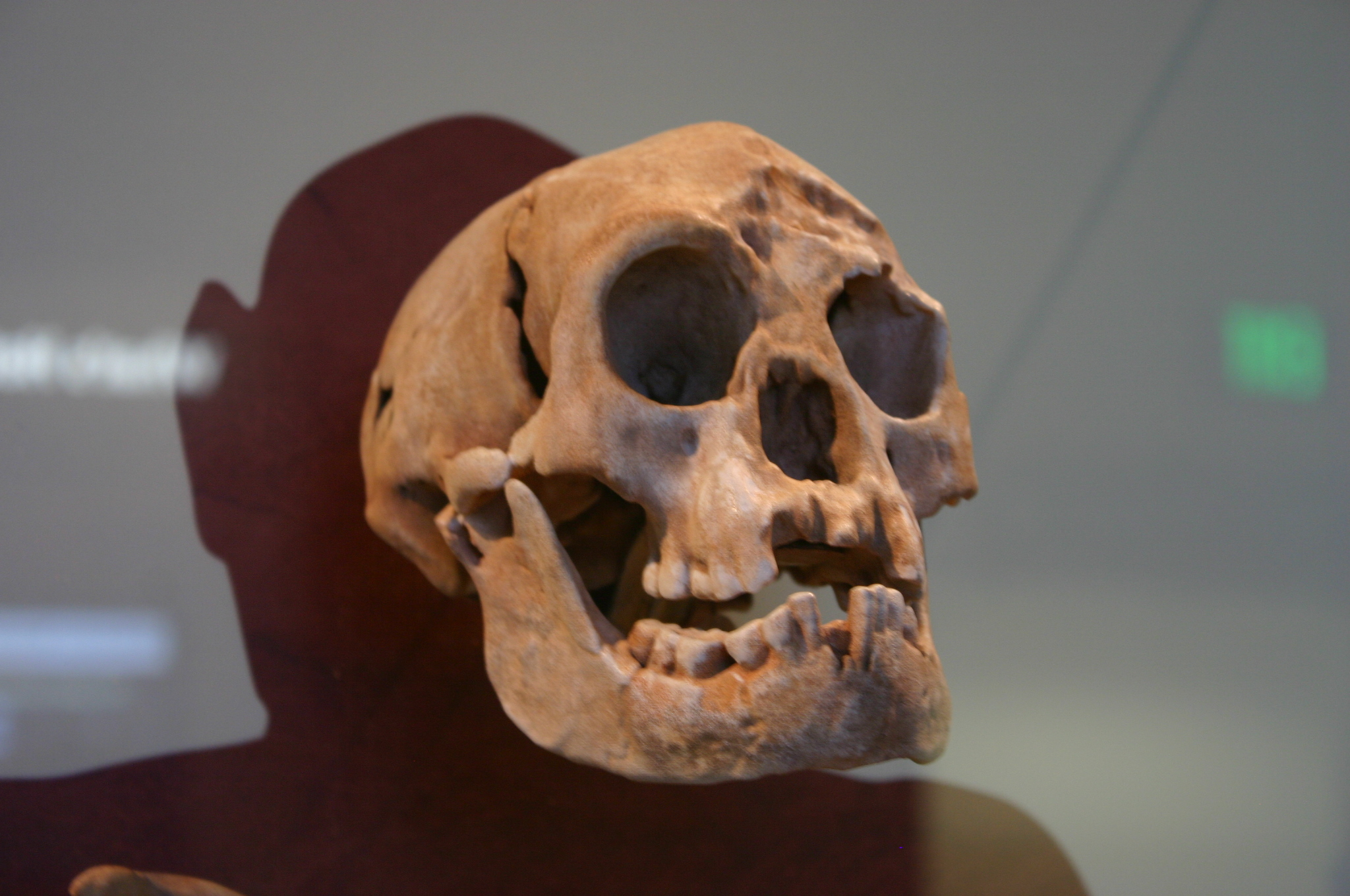 Homo floresiensis, taken at the David H. Koch Hall of Human Origins at the Smithsonian Natural History Museum